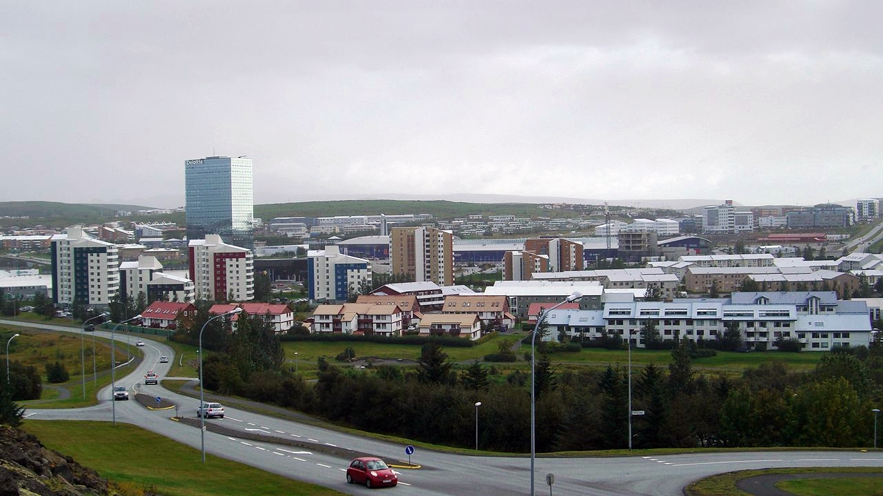 A view over Smárahverfi neighborhood in Kópavogur, Iceland.